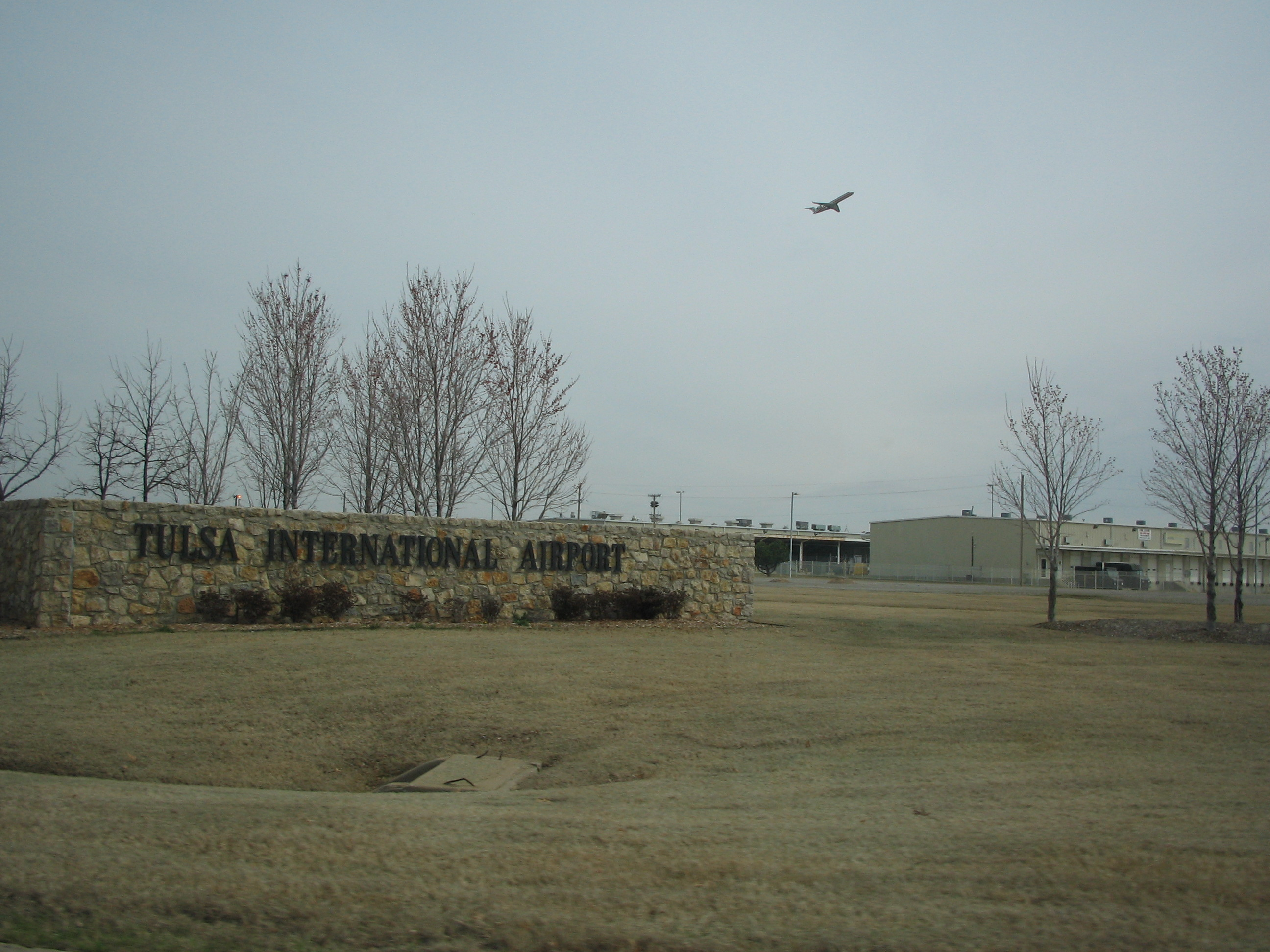 Add another airport to the list. Tulsa, Oklahoma!